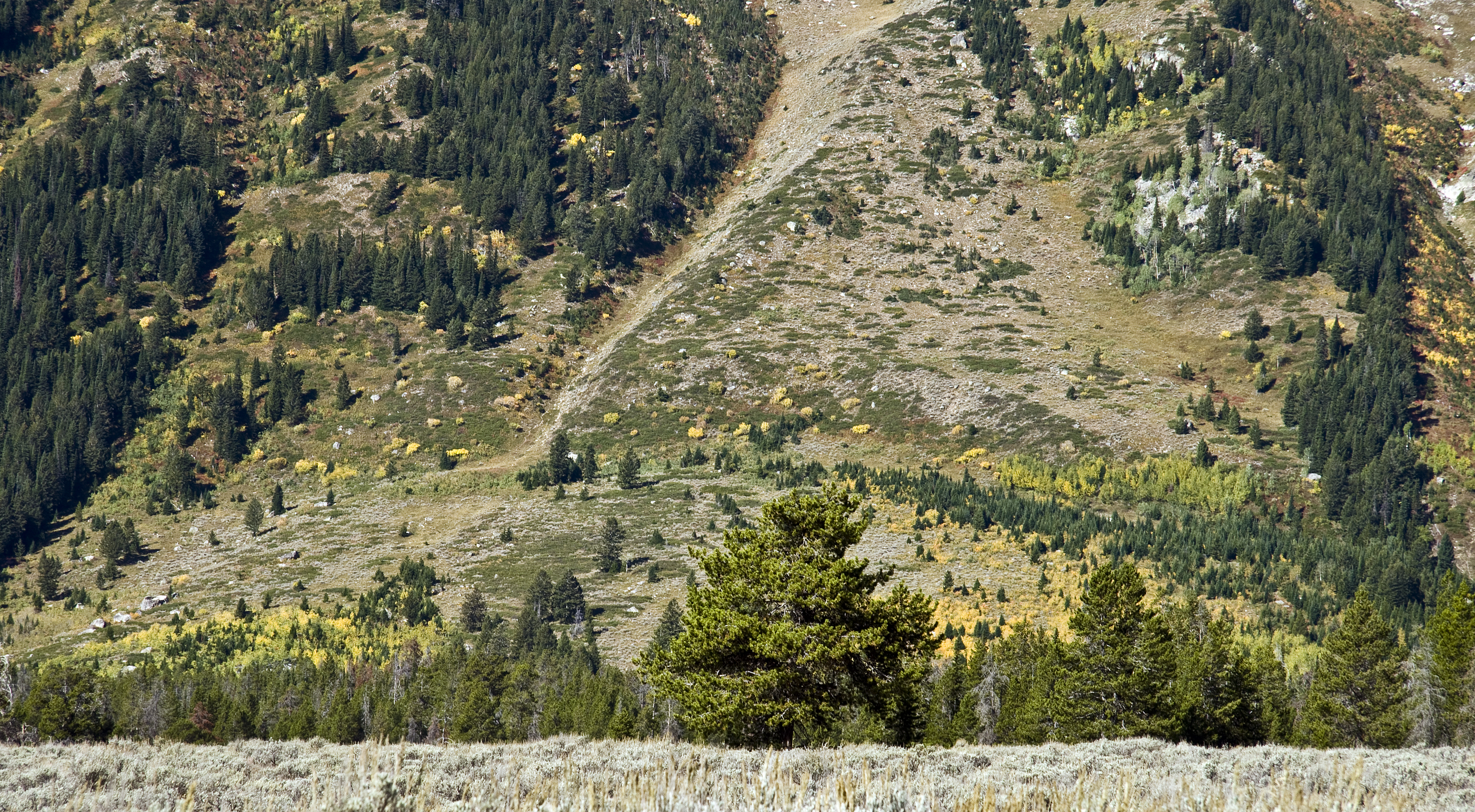 The scarp associated with the Teton Fault at the base of the Teton Range, on the lower face of Rockchuck Peak to the west of String Lake, Grand Teton National Park, Wyoming, USA. The scarp extends across the lower part of the image, marked by the horizontal band of trees on the mountainside and the sharp change in direction of the vertical debris chute.